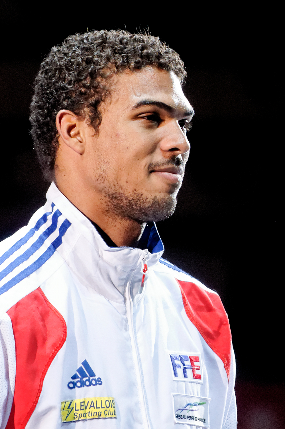 French fencer Yannick Borel at the Challenge Réseau Ferré de France–Trophée Monal 2012.